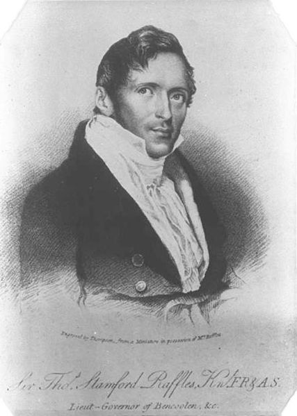 Sir Thomas Stamford Raffles (1781-1826), British East Indian administrator and founder of the port city of Singapore (1819). Engraved by Thomson.